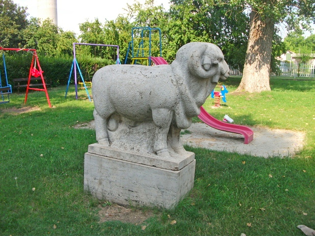 Sheep statue in Zichyújfalu, Hungary.